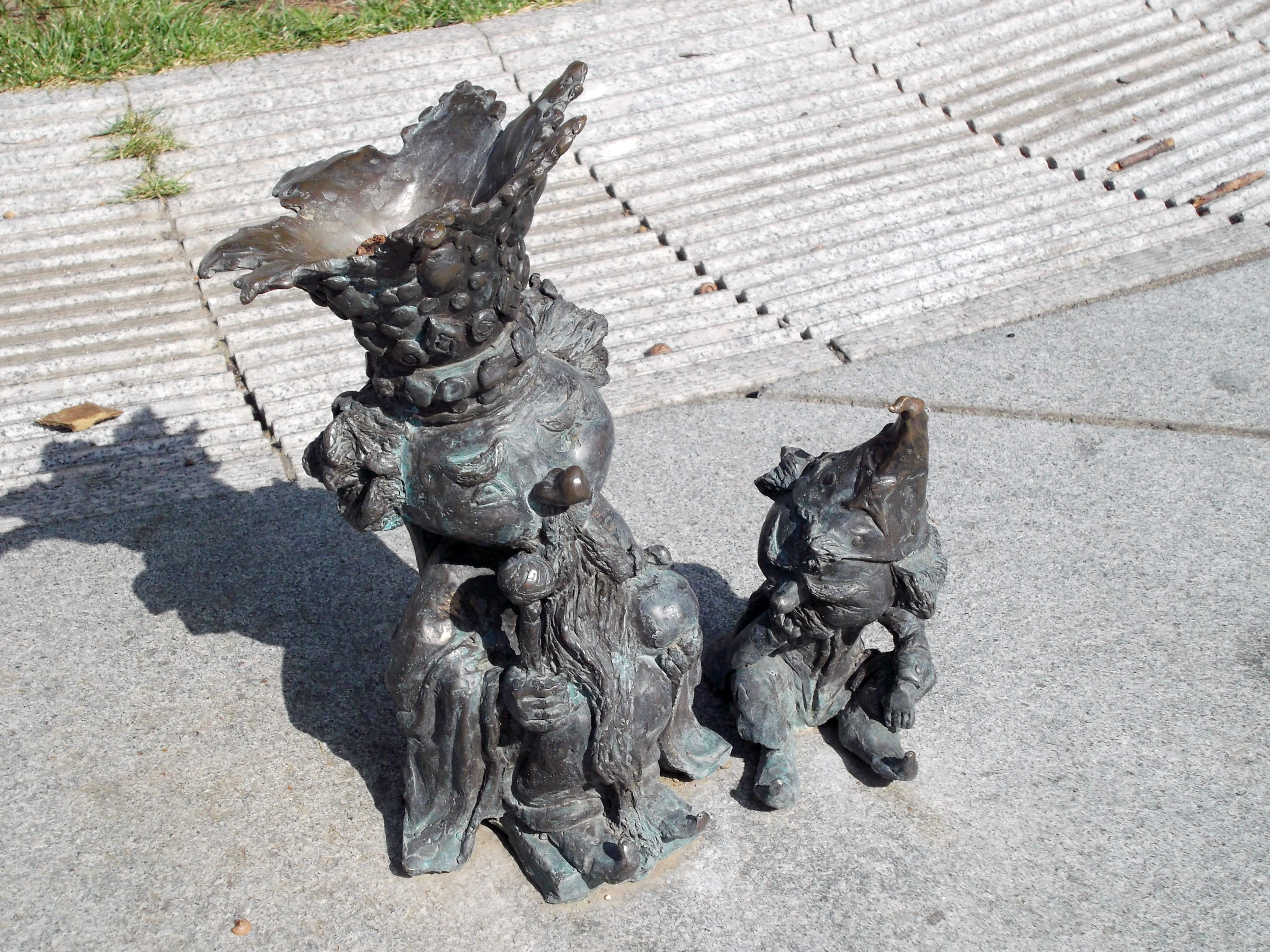 The Lane of Dwarves in Suwałki (Poland).